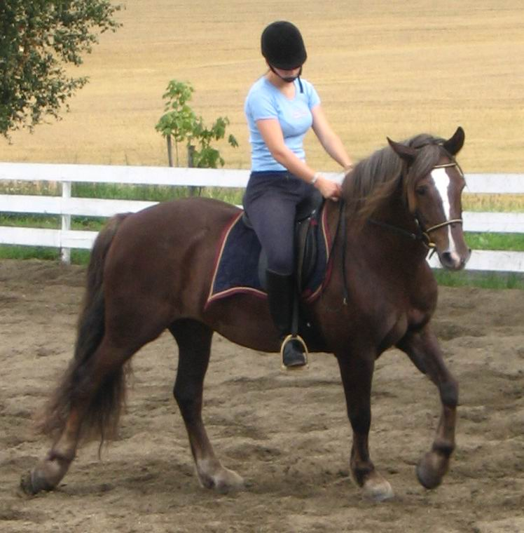 IdunJenta, kaldblodstraver etter Haaps Idun og Tronsruggen. Traver omskolert til ridehest.